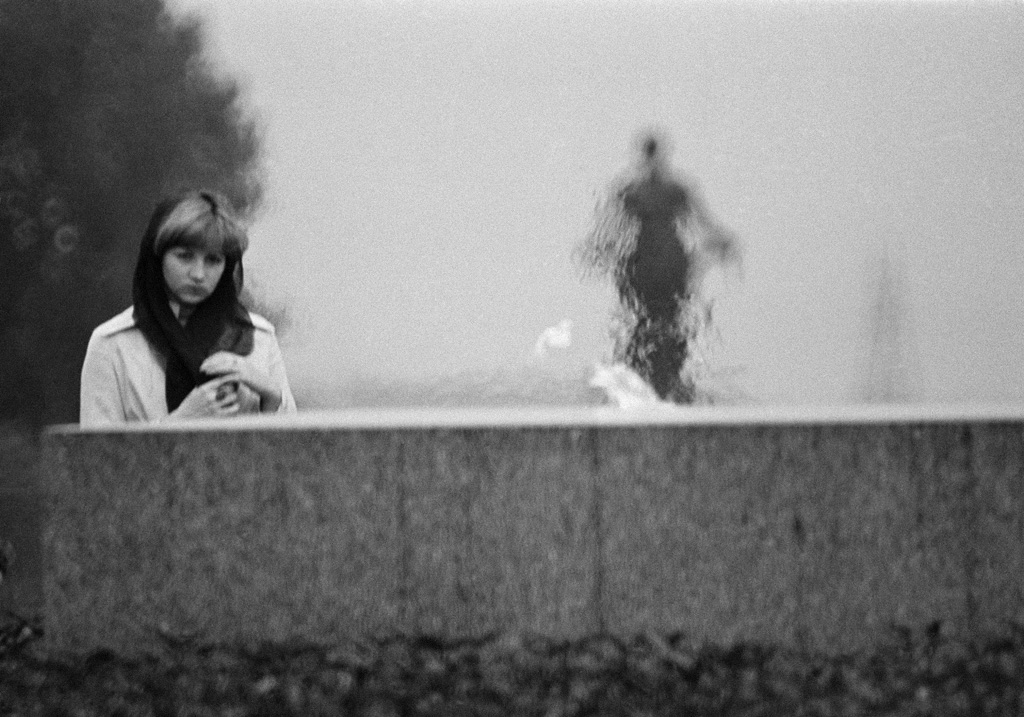 “Piskaryovo graveyard”. The Piskaryovo graveyard.